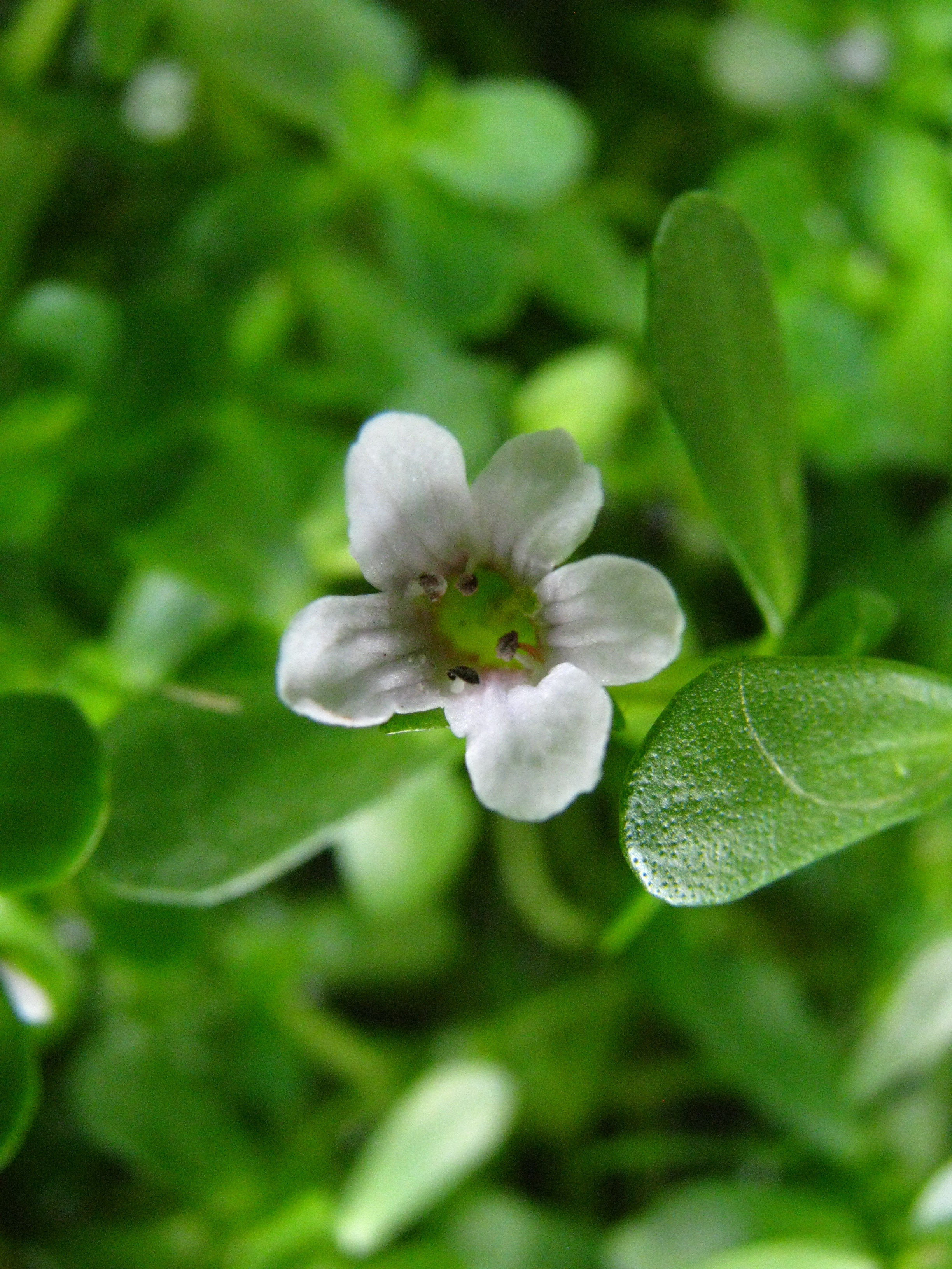 ʻAeʻae or Water hyssop Plantaginaceae (Plantain family) Indigenous to the Hawaiian Islands Oʻahu (Cultivated) The whole herb is used medicinally in India in a variety of ways. It is grown as a medicinal crop and is being research for antioxidant properties, to help the nervous system, and to improve memory and mental functions.